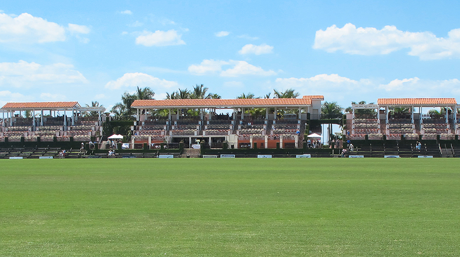 Photo of the main stadium at the International Polo Club Palm Beach before a polo match.